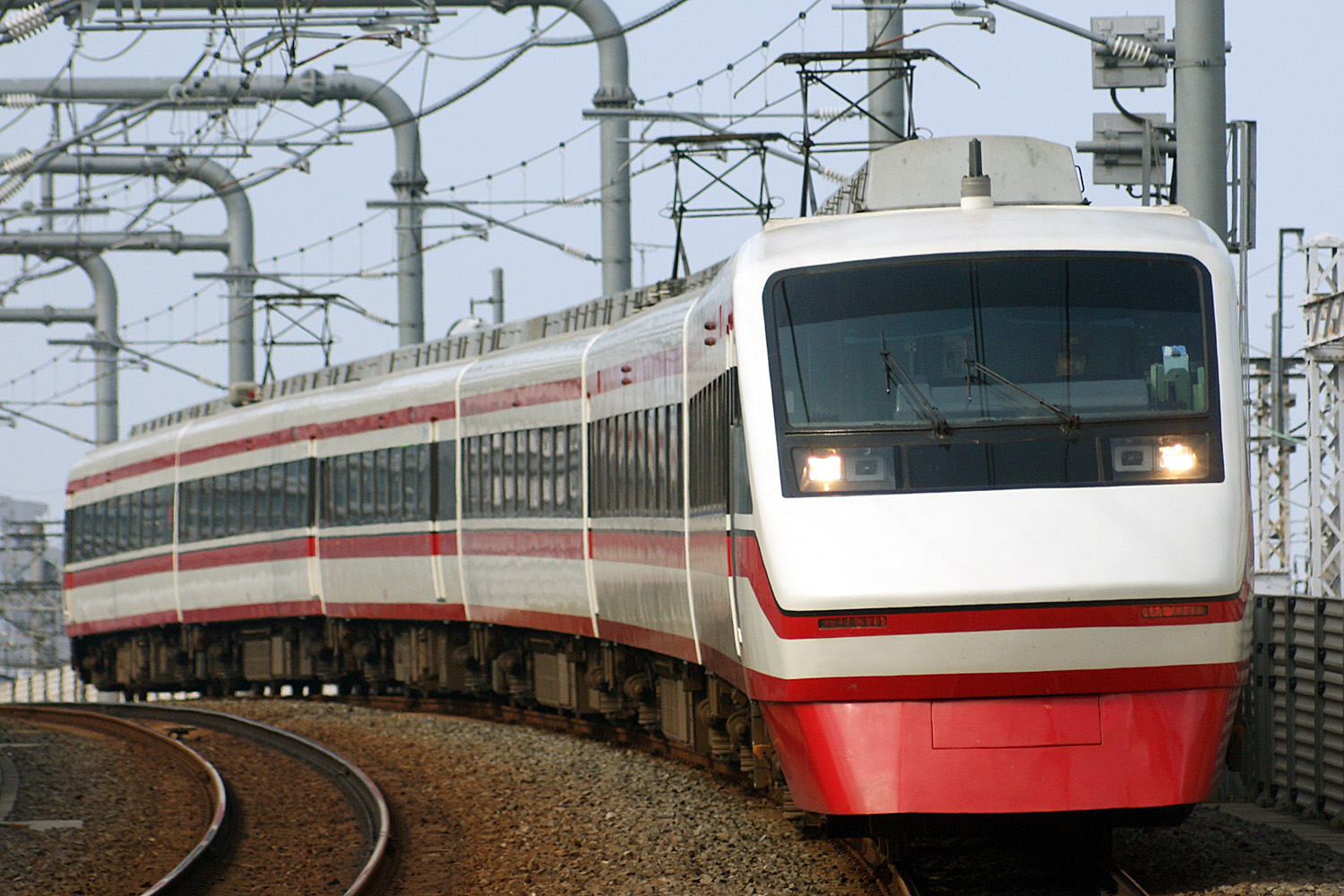 Tobu Railway series 200, limited express "Ryomo".